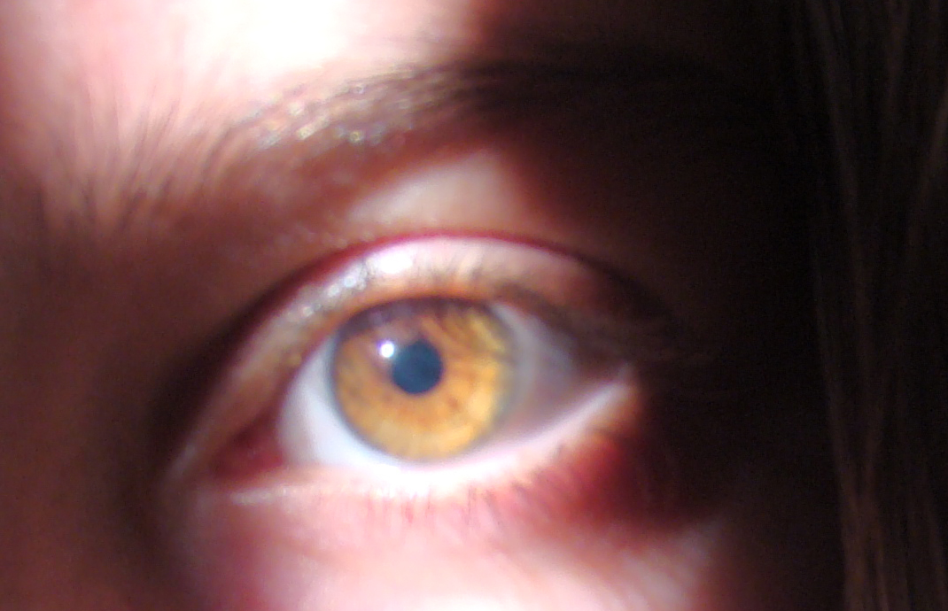 Human Female with an Amber Iris that contains Central Heterochromia (Hazel Eye)